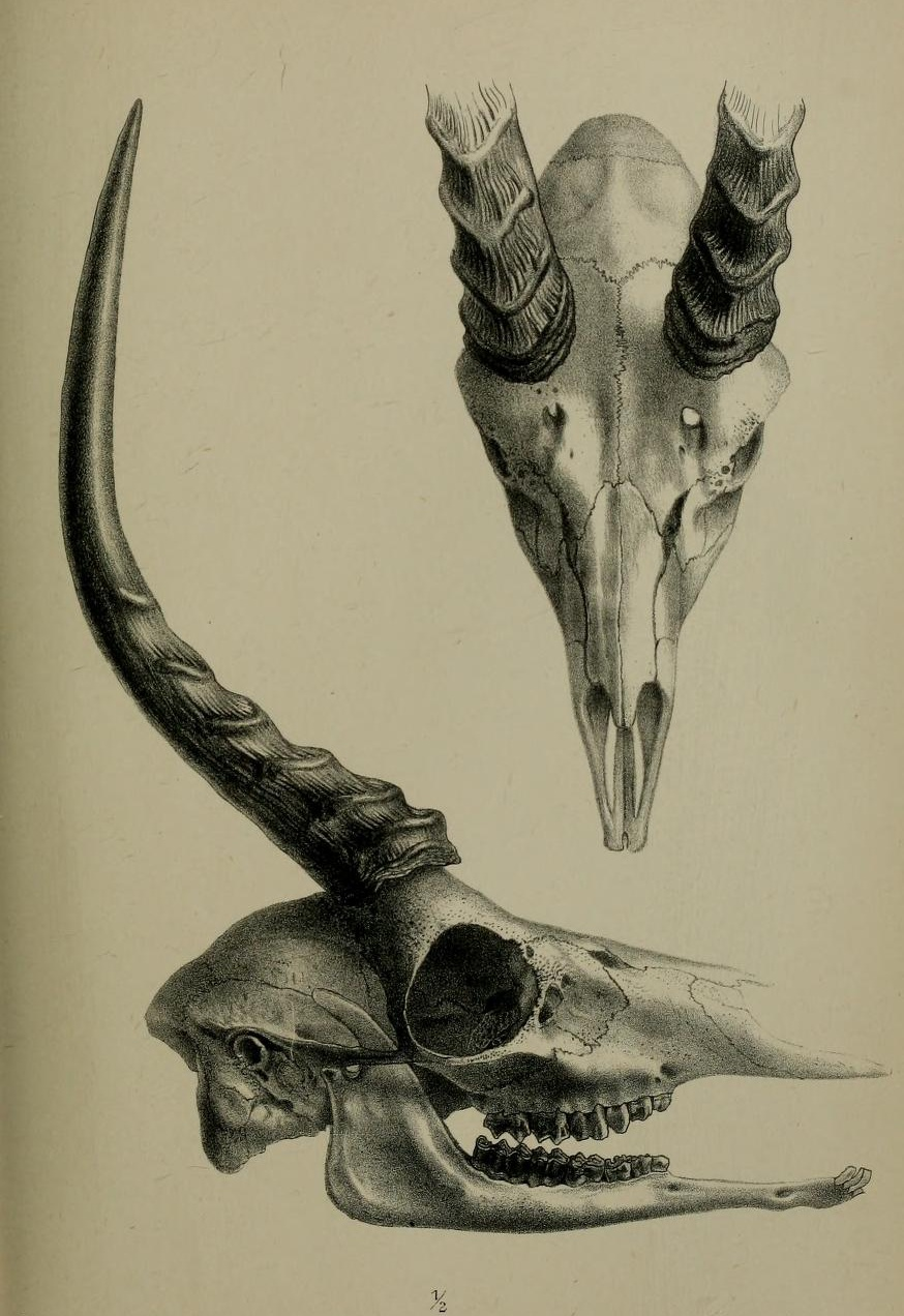 Clarke's gazelle (Ammodorcas clarkei) skull in lateral and dorsal view